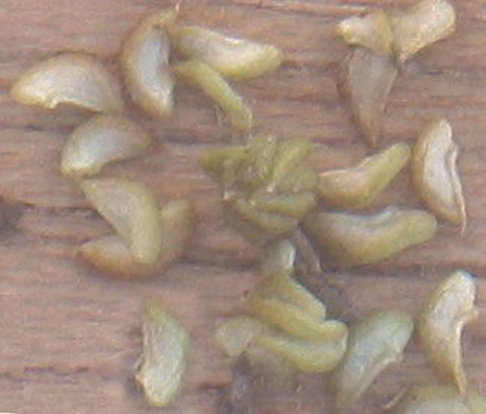 Filipendula ulmaria fruit and seeds